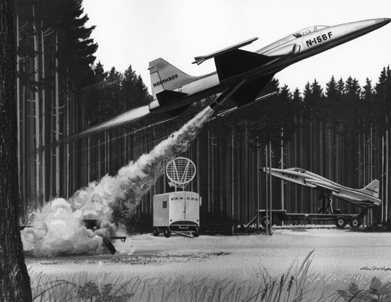 Artist's concept of the Northrop N-156F (F-5 Freedom Fighter) operating from an European clearing using ZEL rocket boosters.